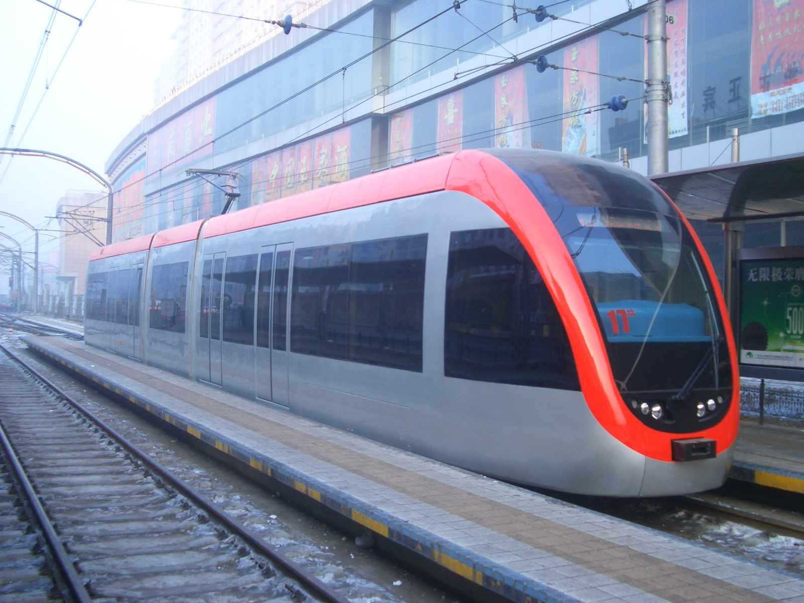 Changchun Light Railway Vehicle manufactured by Tangshan Locomotive and Rolling Stock Works.